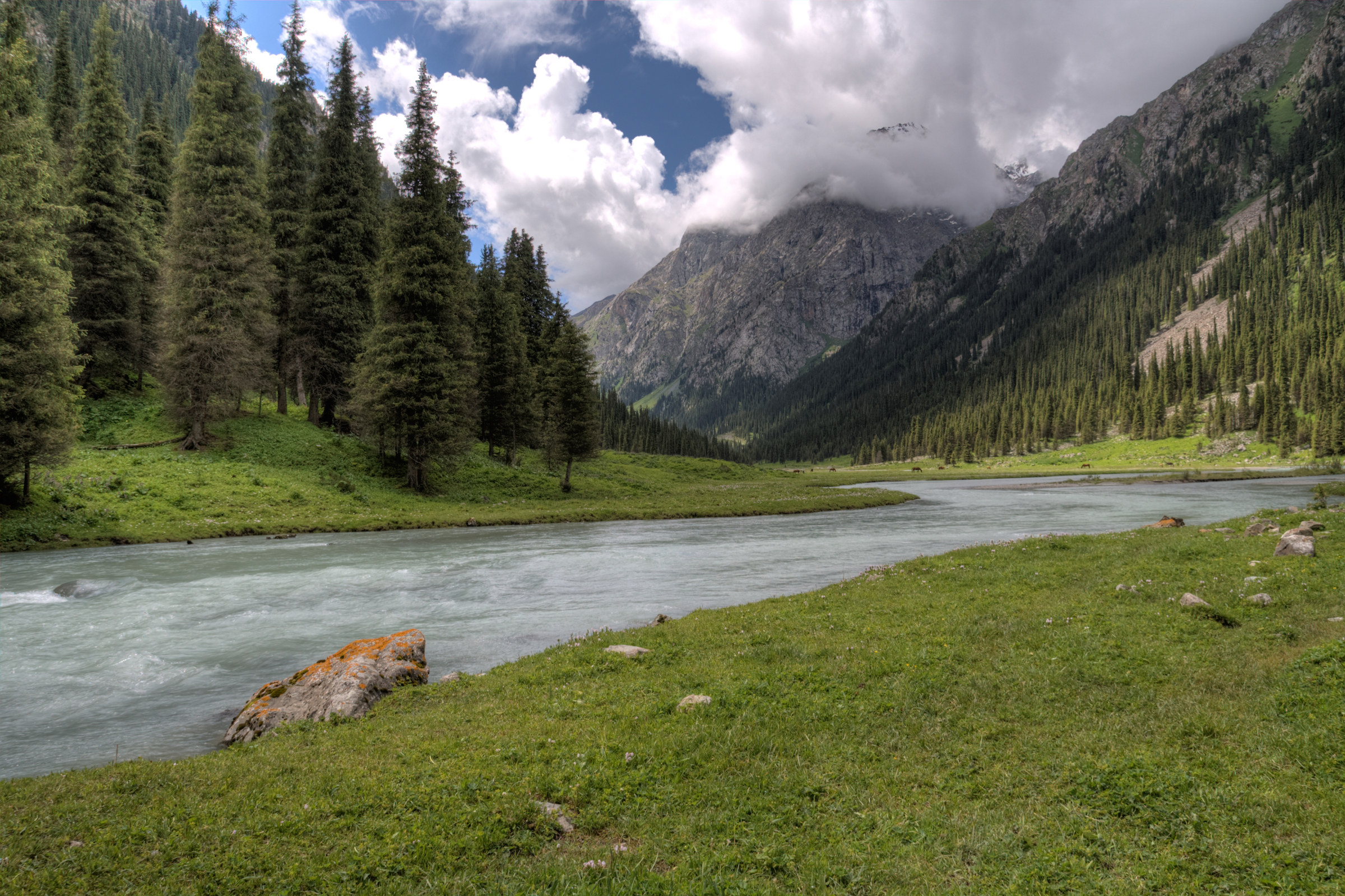 Karakol Valley near Karakol, Kyrgyzstan